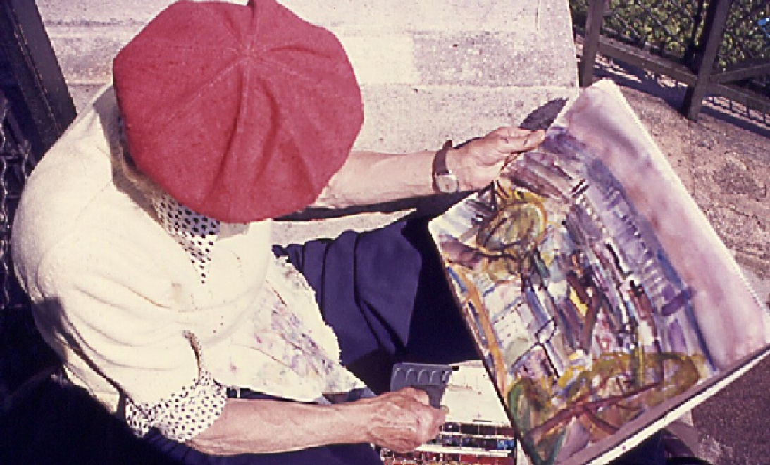 Clara Vogedes in Paris